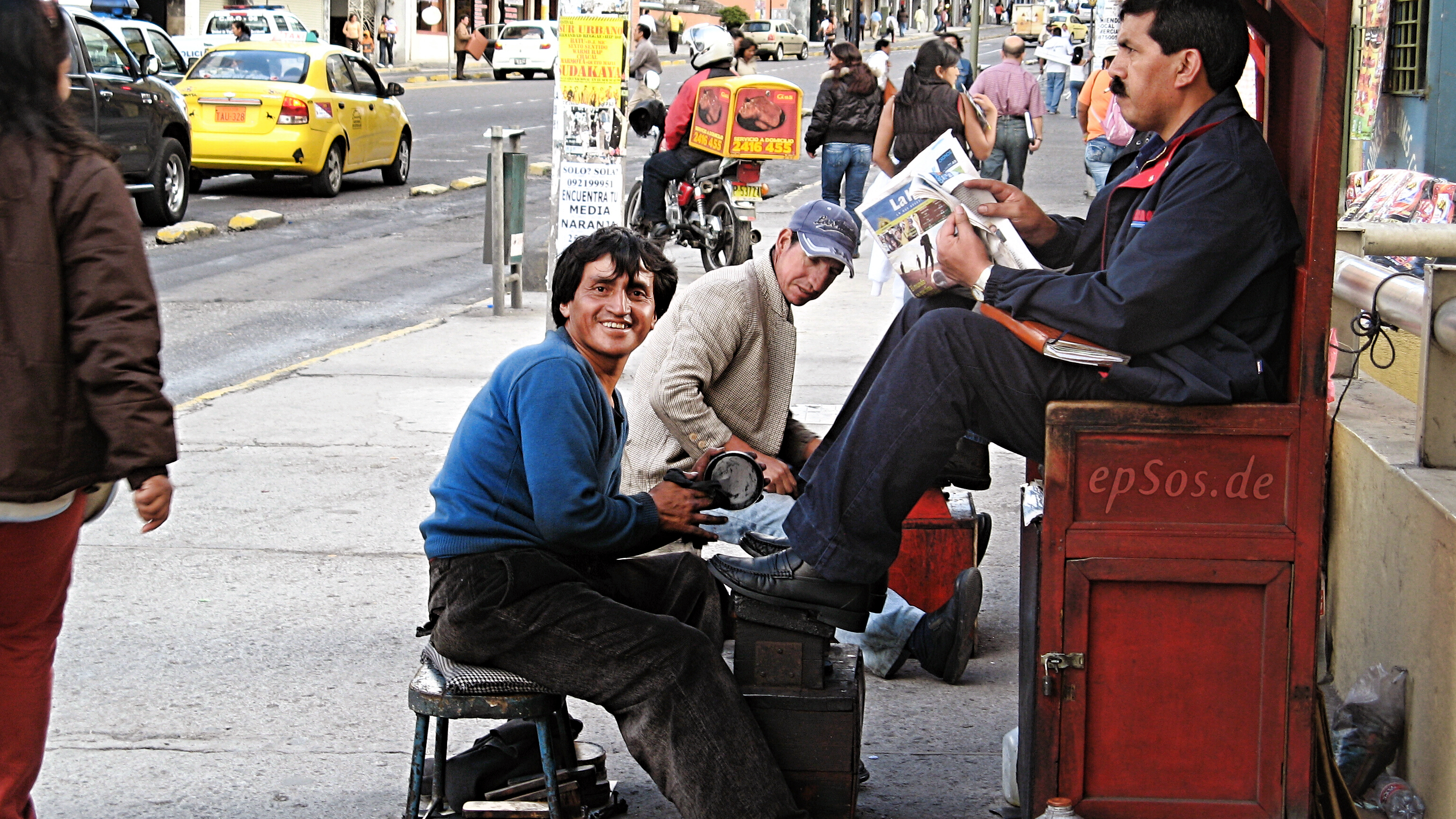 Free picture of a smiling poor servant serving a rich boss to get out of poverty with a smile. His service is to clean and polish leather shoes of passersby. This picture was created by my kind friend epSos.de and can be used for free, if you link epSos.de as the original author of the image. The role of the rich boss in this image is to earn enough to help others with buying services like this. This foto is an example of the social divide and inequality in life. This free picture of the Indian shoe-shiner was created in Latin America, in Quito. Thank you for sharing this picture with your friends !